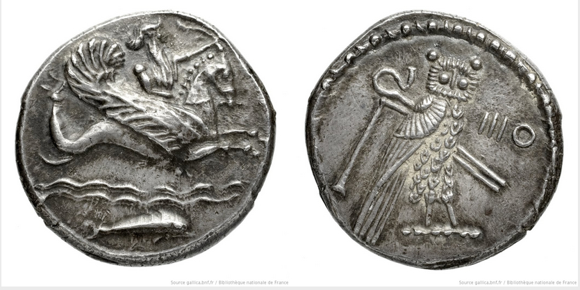 "Droit : . Melqart chevauchant un hippocampe ailé à droite, tenant un arc et une flèche, sur deux lignes de flots ; dans le champ inférieur, un dauphin à droite. Revers : . Chouette à droite, tête de face, avec un sceptre et un fléau égyptiens ; dans le champ supérieur droit, III ° (caractères phéniciens) . "